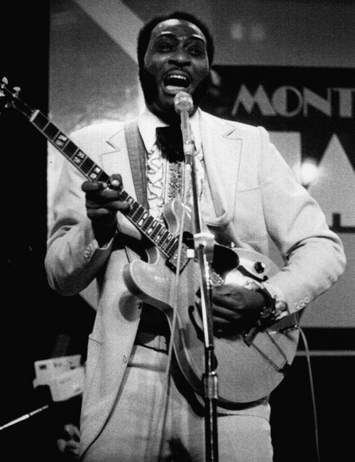 American chicago blues guitarist and vocalist Eddy Clearwater in Montreux, Switzerland.